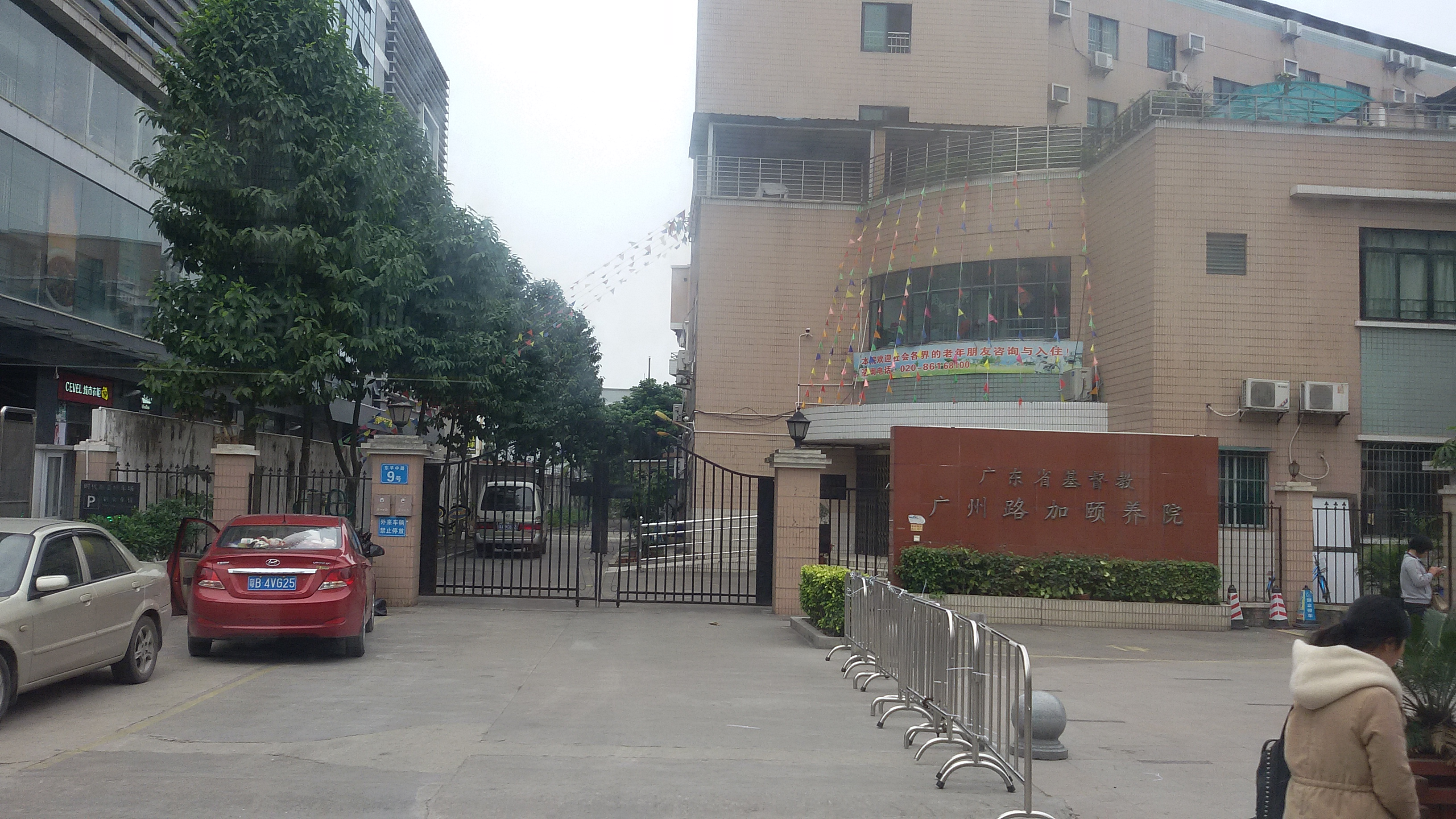 Canton St. Luke's Care Center 粵語: 廣州路加頤養院